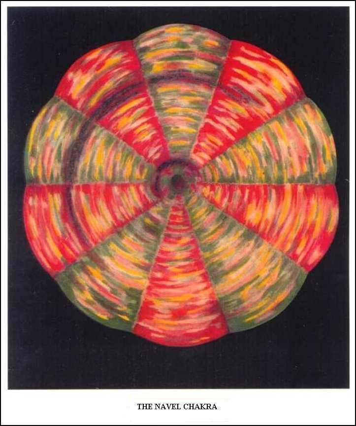 The navel chakra